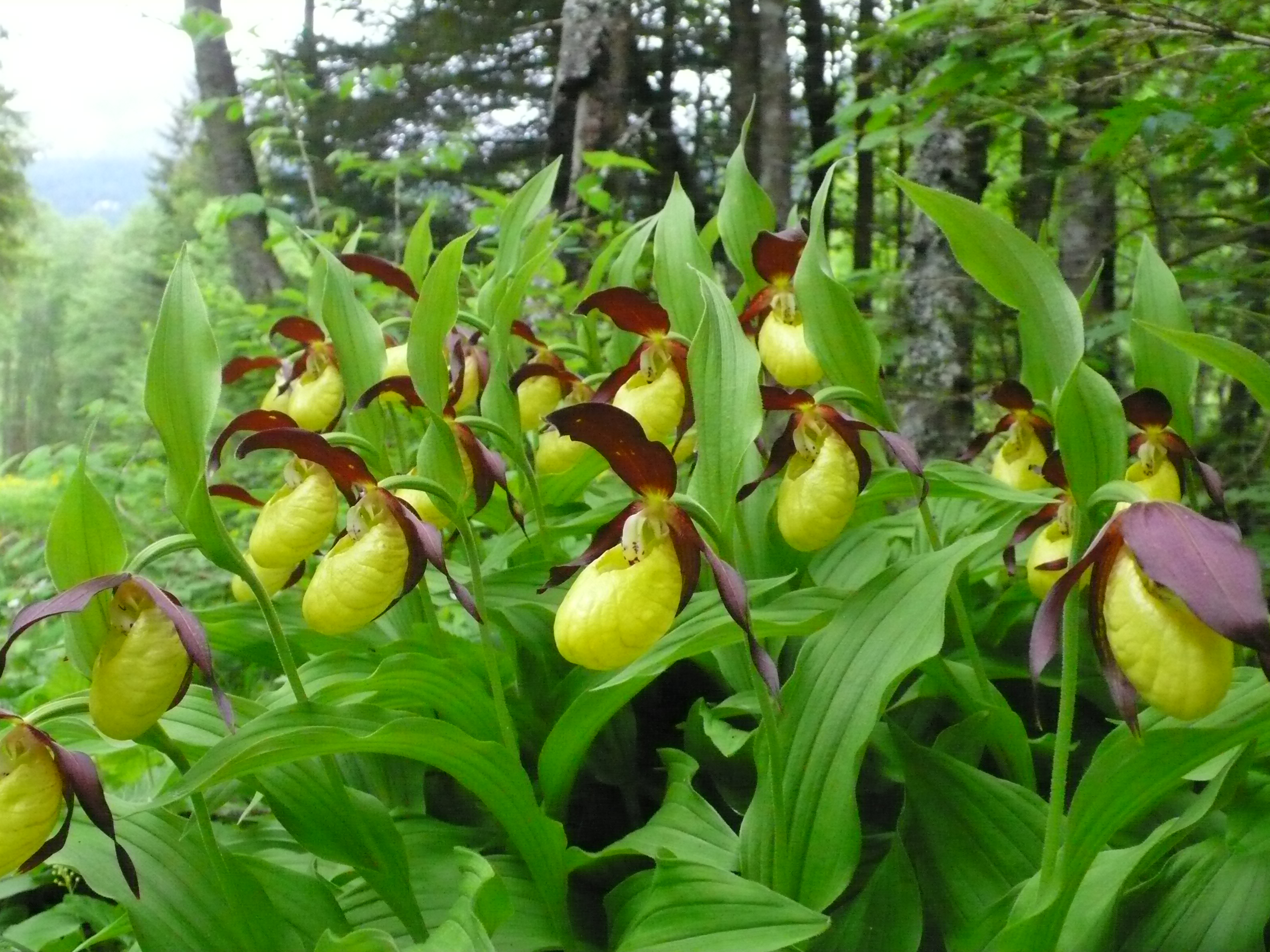 Cypripedium_calceolus in Les_Contamines-Montjoie